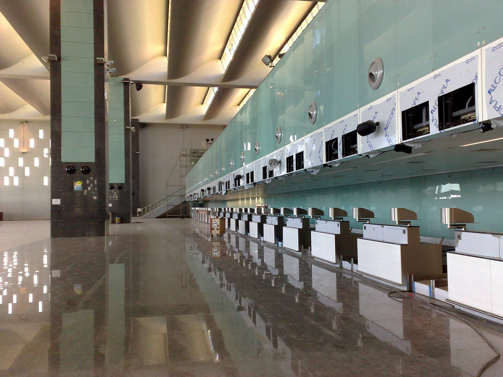 Check-in counters at the new Bangalore International Airport, India